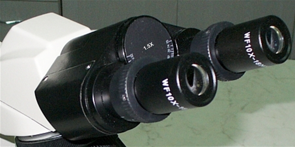 Microscope binocular.